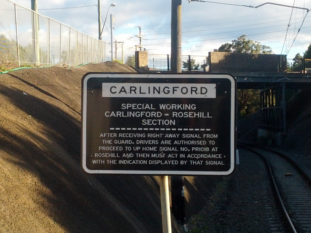 Carlingford - CGF-Rosehill Signalling Sign